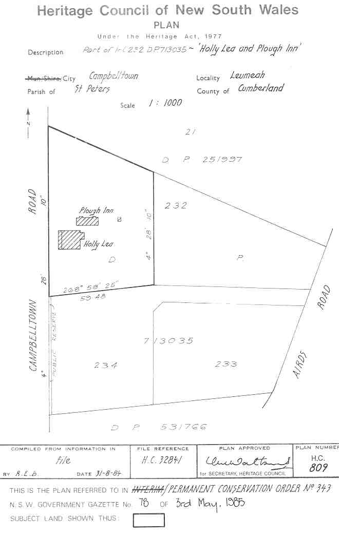 Holly Lea and Plough Inn: PCO Plan Number 343